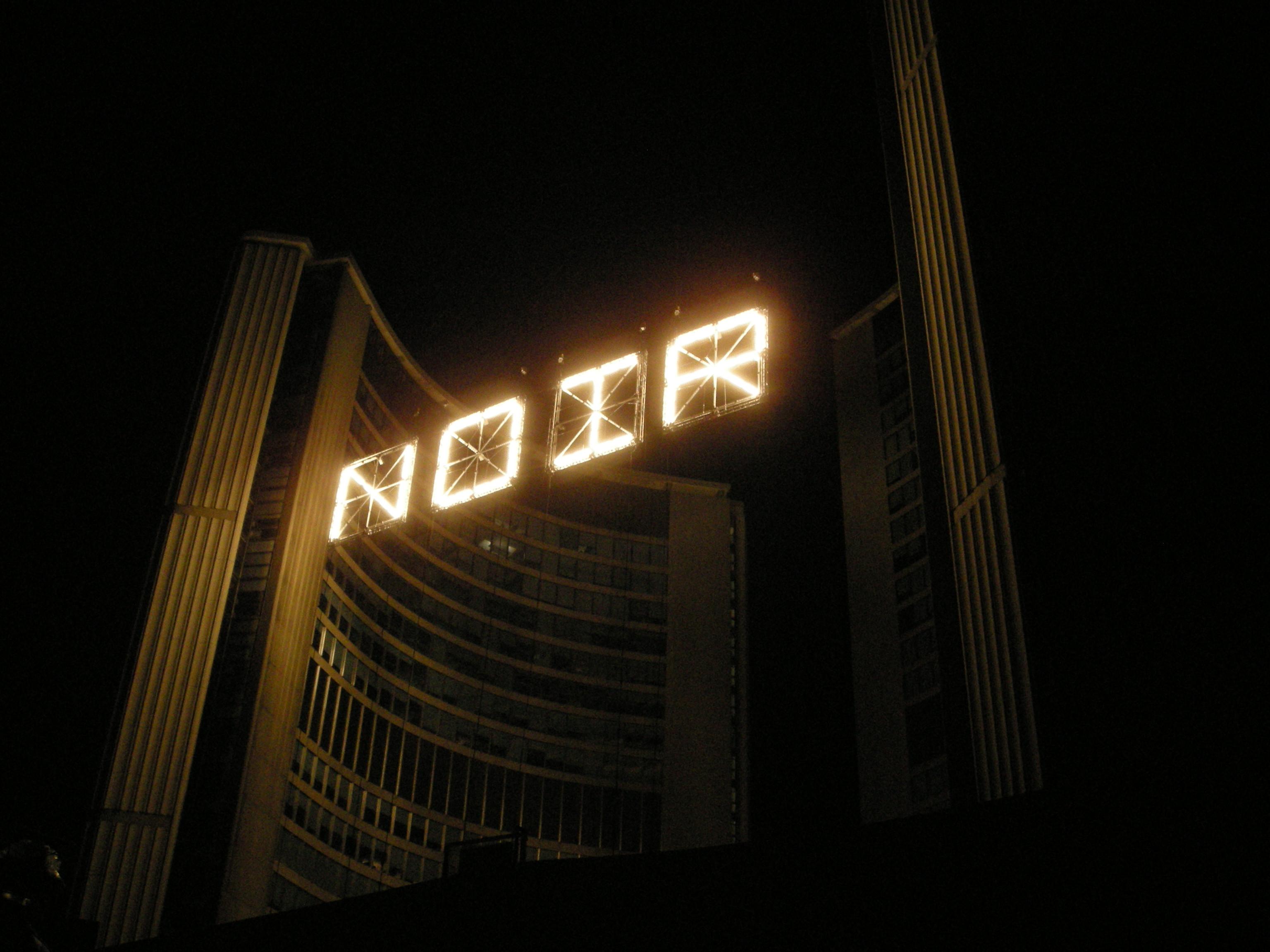 Beautiful Light: 4 LETTER WORD MACHINE, 2009 (D. A. Therrien) - Light installation suspended 65 metres in the air between the towers of Toronto City Hall, with the four 7 m2 alphanumeric quartz lamp arrays displaying codes, DNA sequences and elemental words.